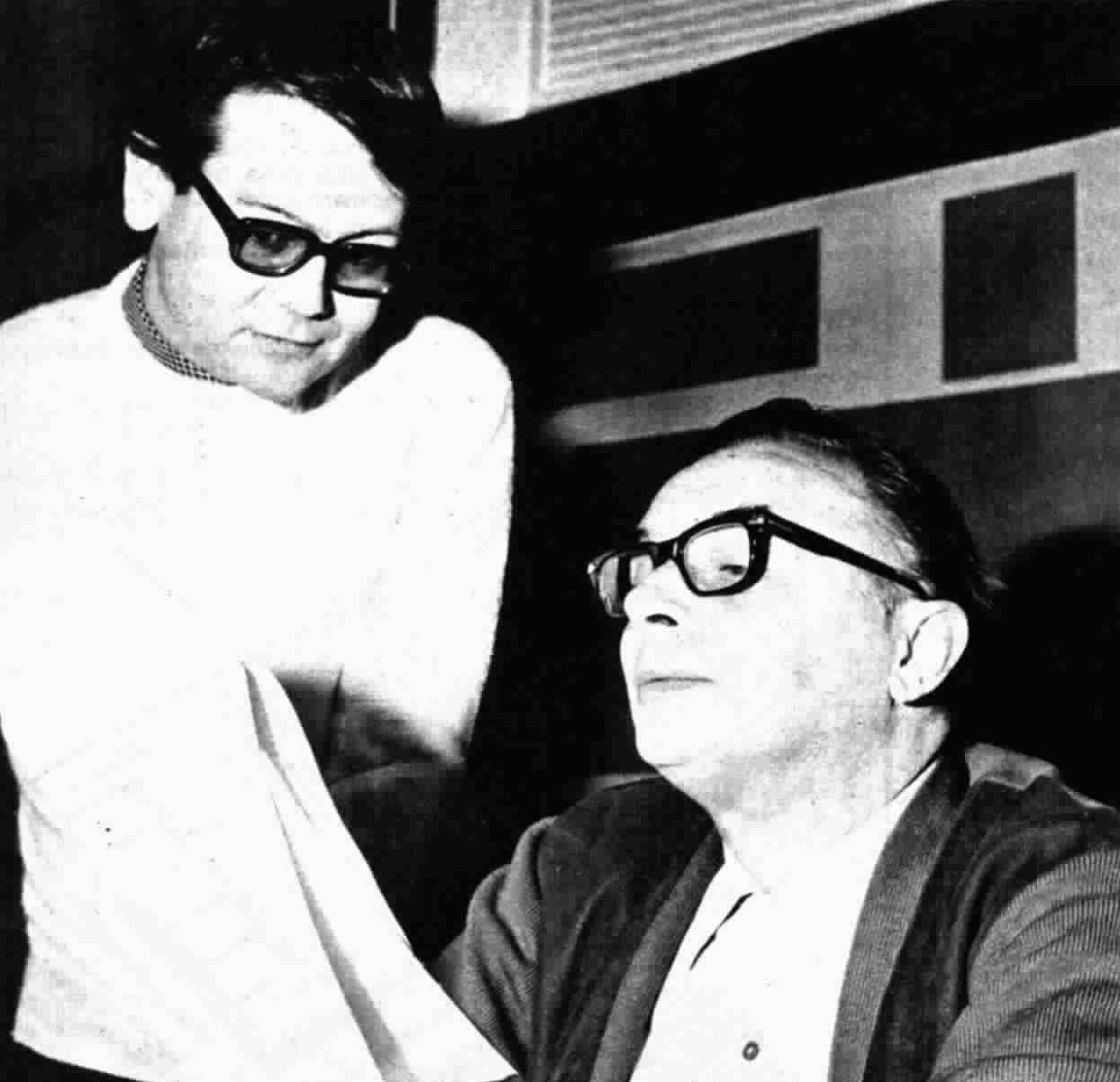 Massimo_Scaglione and Tino Carraro during the rehearsal of a play